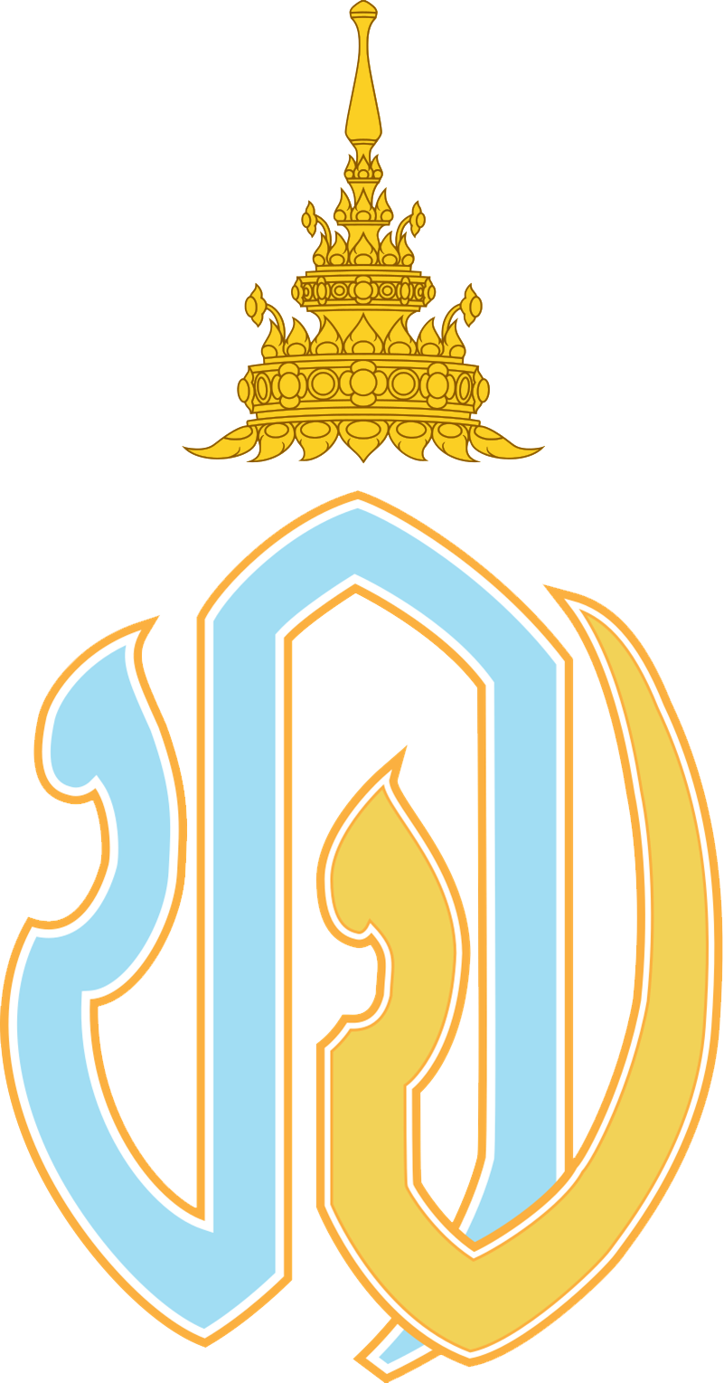 ตราประจำพระองค์ สมเด็จพระเจ้าลูกยาเธอ เจ้าฟ้าทีปังกรรัศมีโชติ มหาวชิโรตตมางกูร สิริวิบูลยราชกุมาร